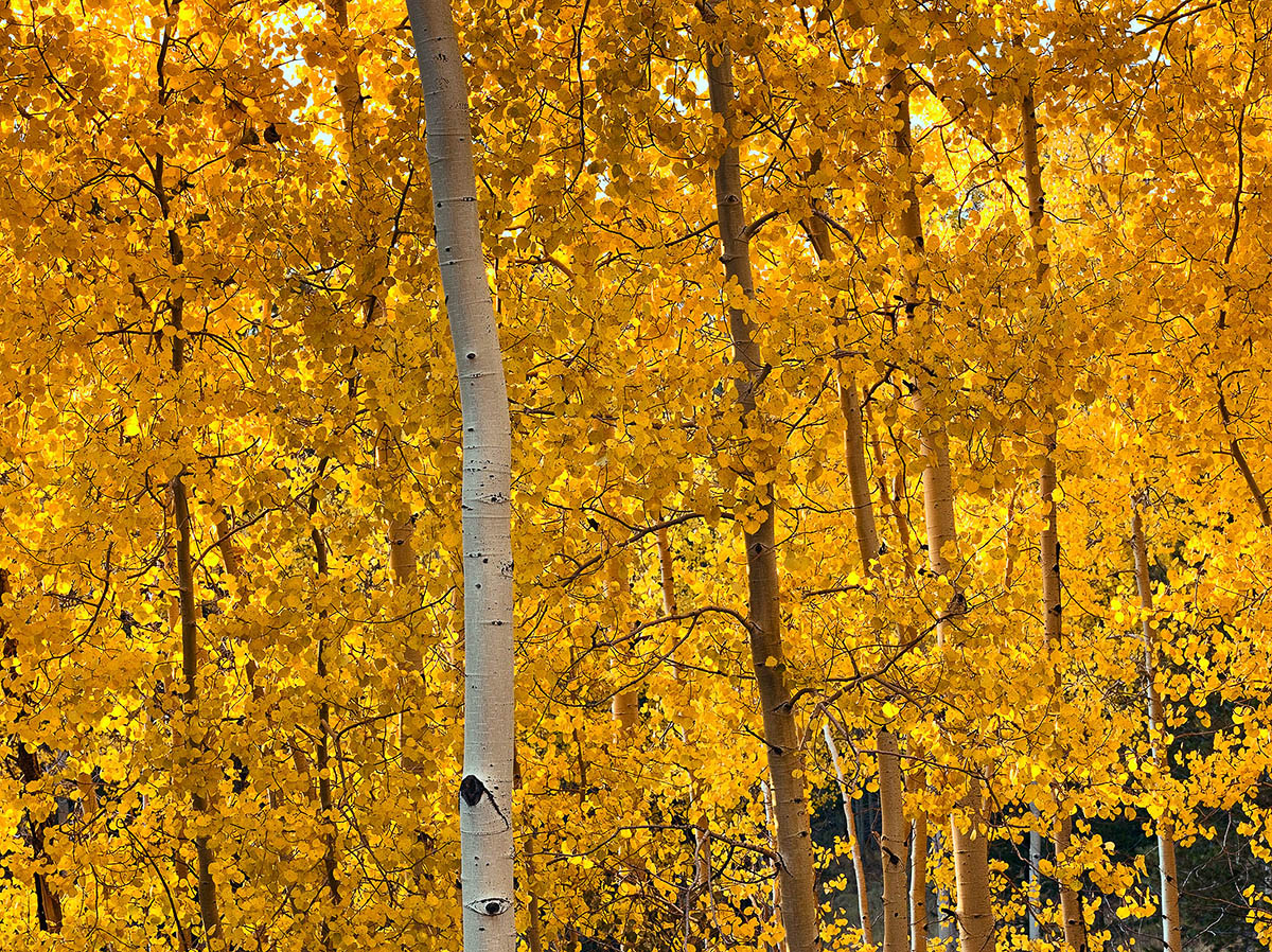 Aspen, Photographed by Doug Dolde along Snowbowl Road in Flagstaff, Arizona in October, 2009.